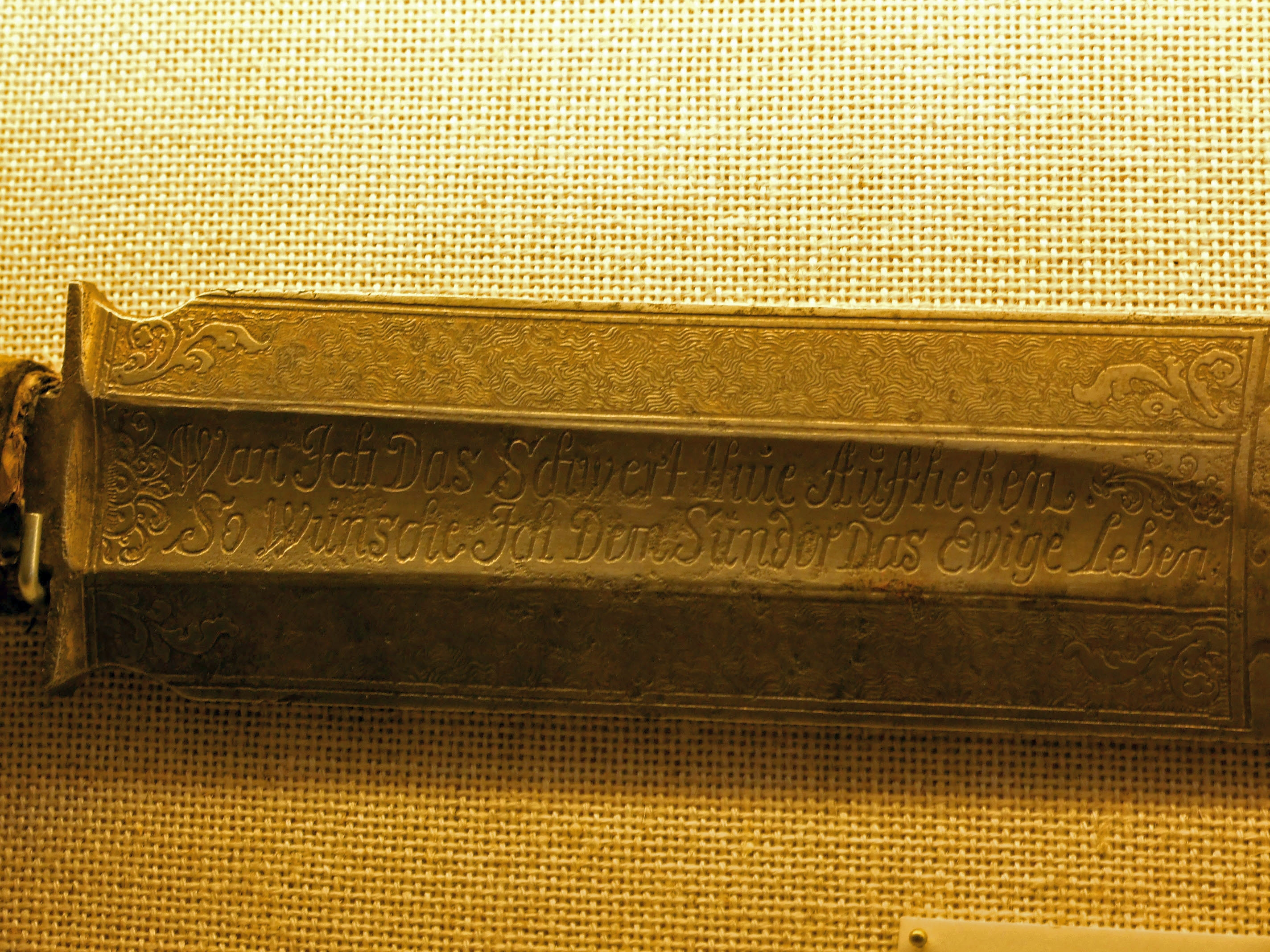 Inscription on the sword of a Frankfurt executioner who did his duty at the Bergen look-out between 1484 and 1537.For the text of the Early Modern German inscription on the blade see above. Translation: "When this sword I do lift / I wish the sinner the eternal life as gift."